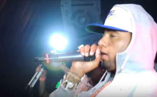 Philthy Rich live on stage in SanFrancisco